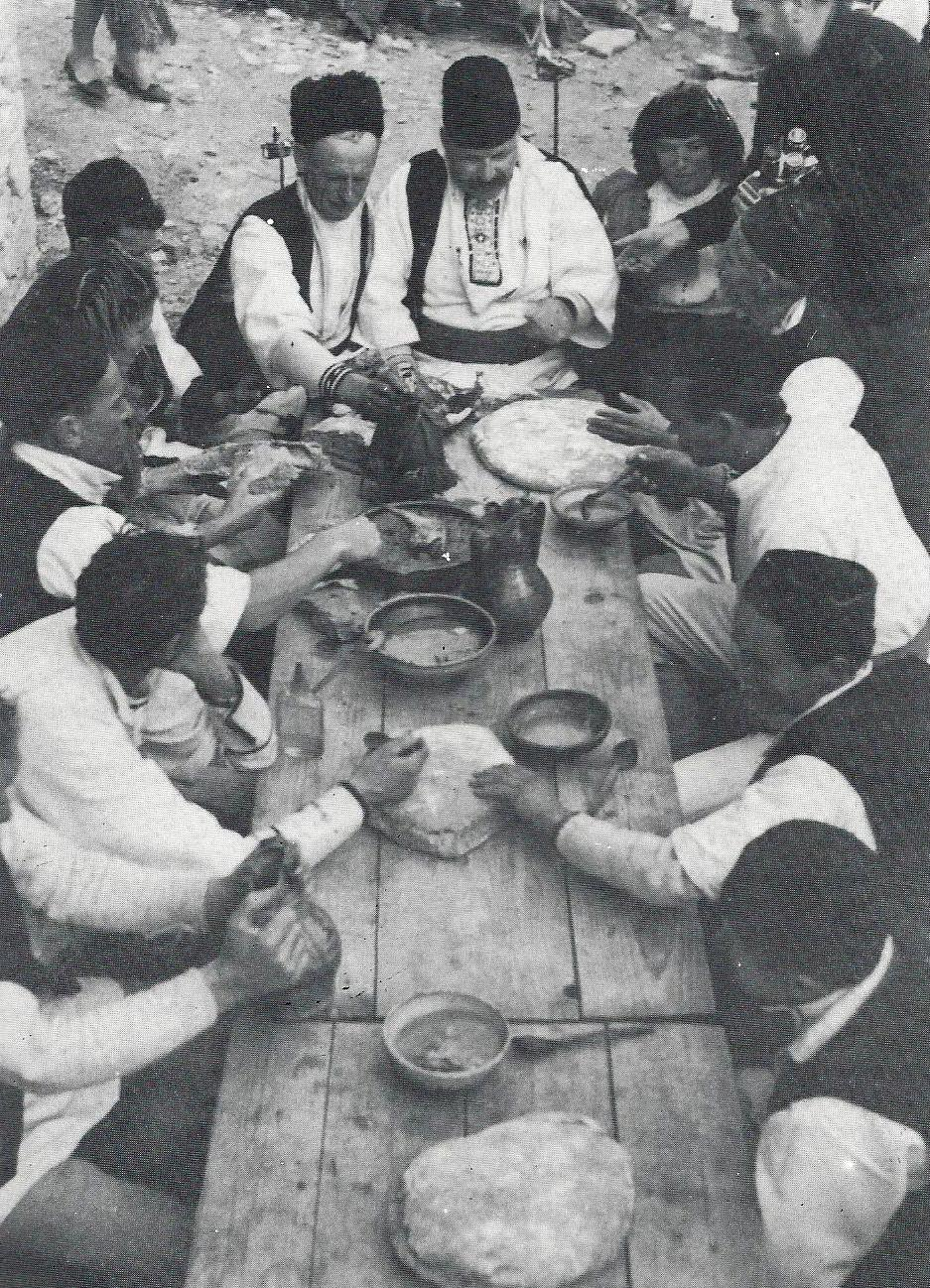 Celebrating holidays in Mariovo region, Macedonia